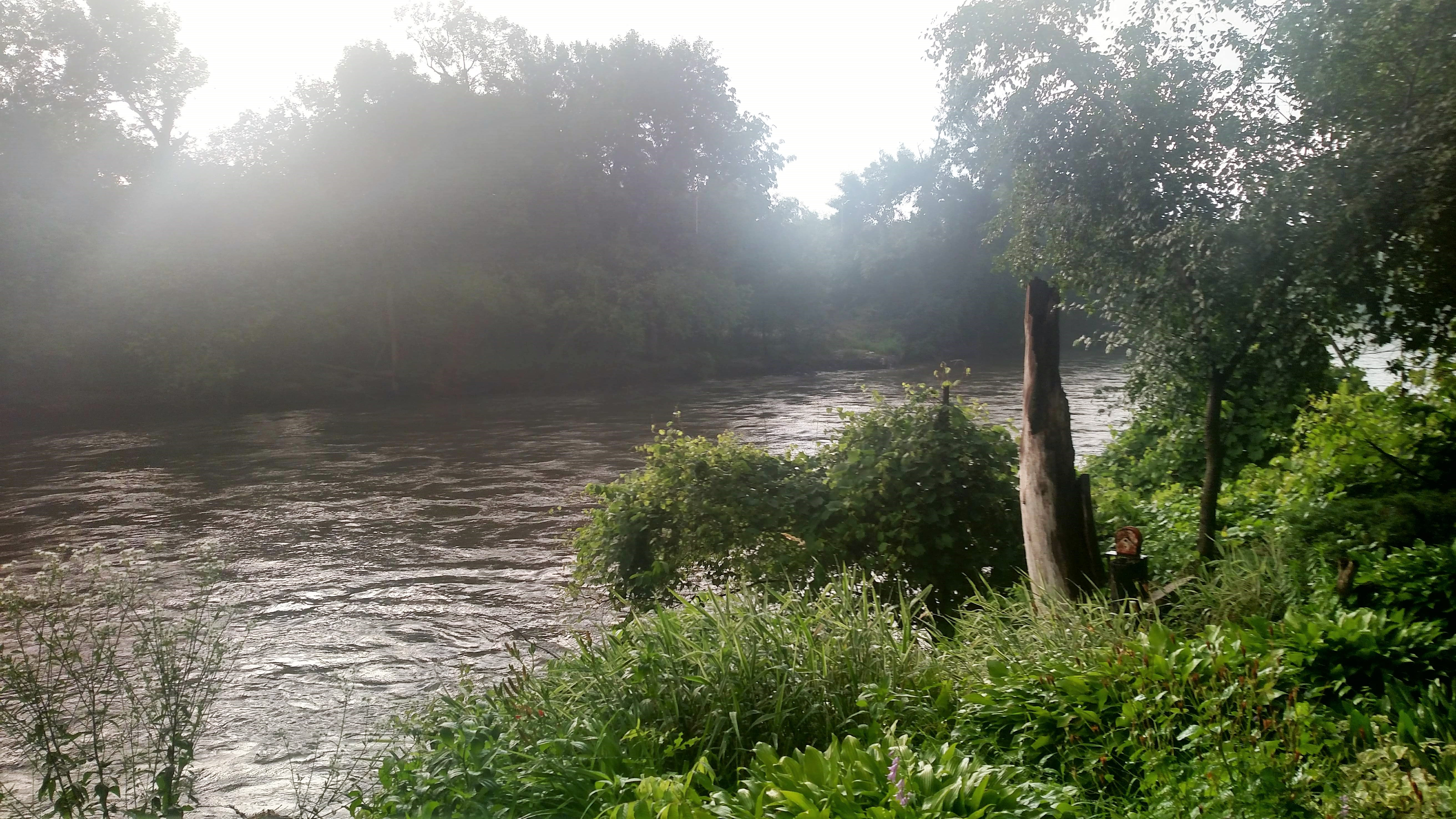 The West Fork of the Des Moines River runs through a backyard on 8th Street in Humboldt, as fog rises after a rain storm